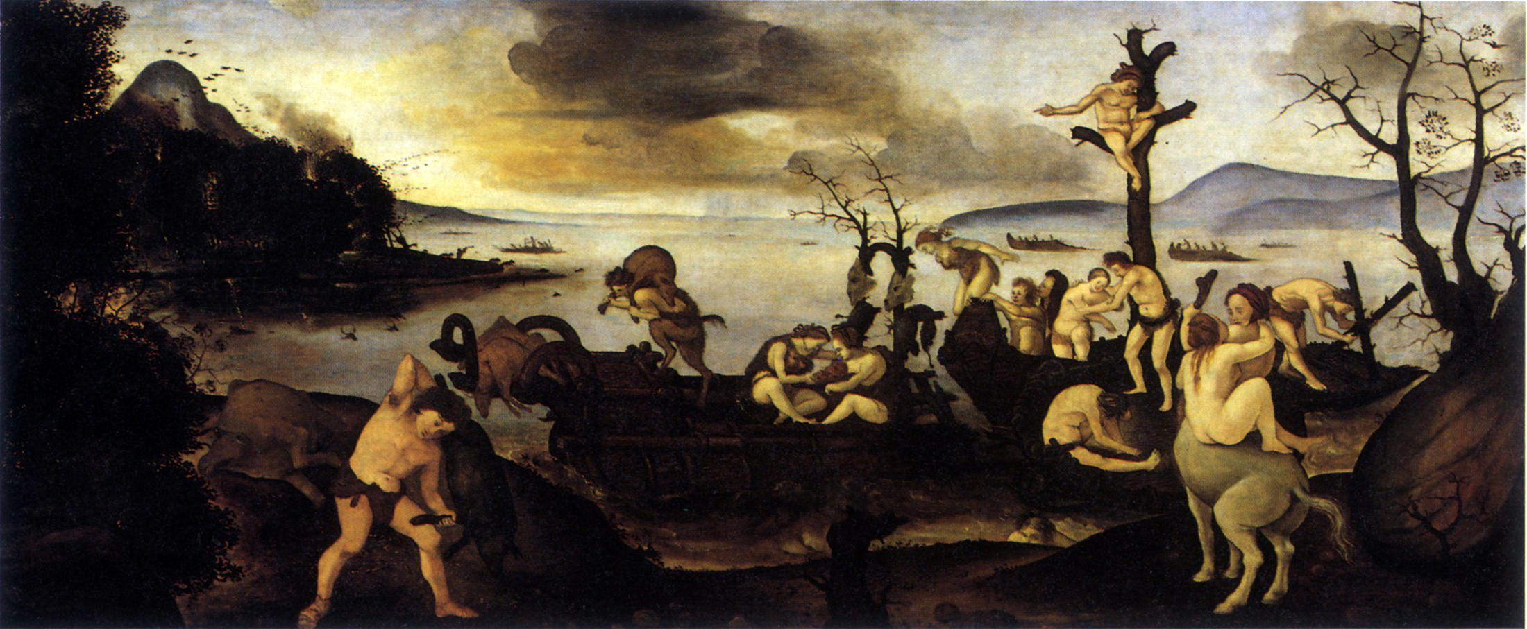 Return from the Hunt Piero di Cosimo Oil and tempera on panel, 70.5 x 168.9 cm New York, Metropolitan Museum of Art